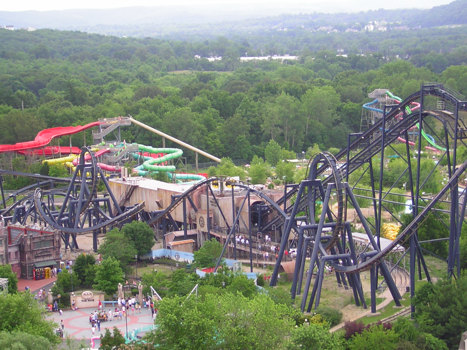 Batman - The Ride at Six Flags St. Louis.Coaster-2004-206